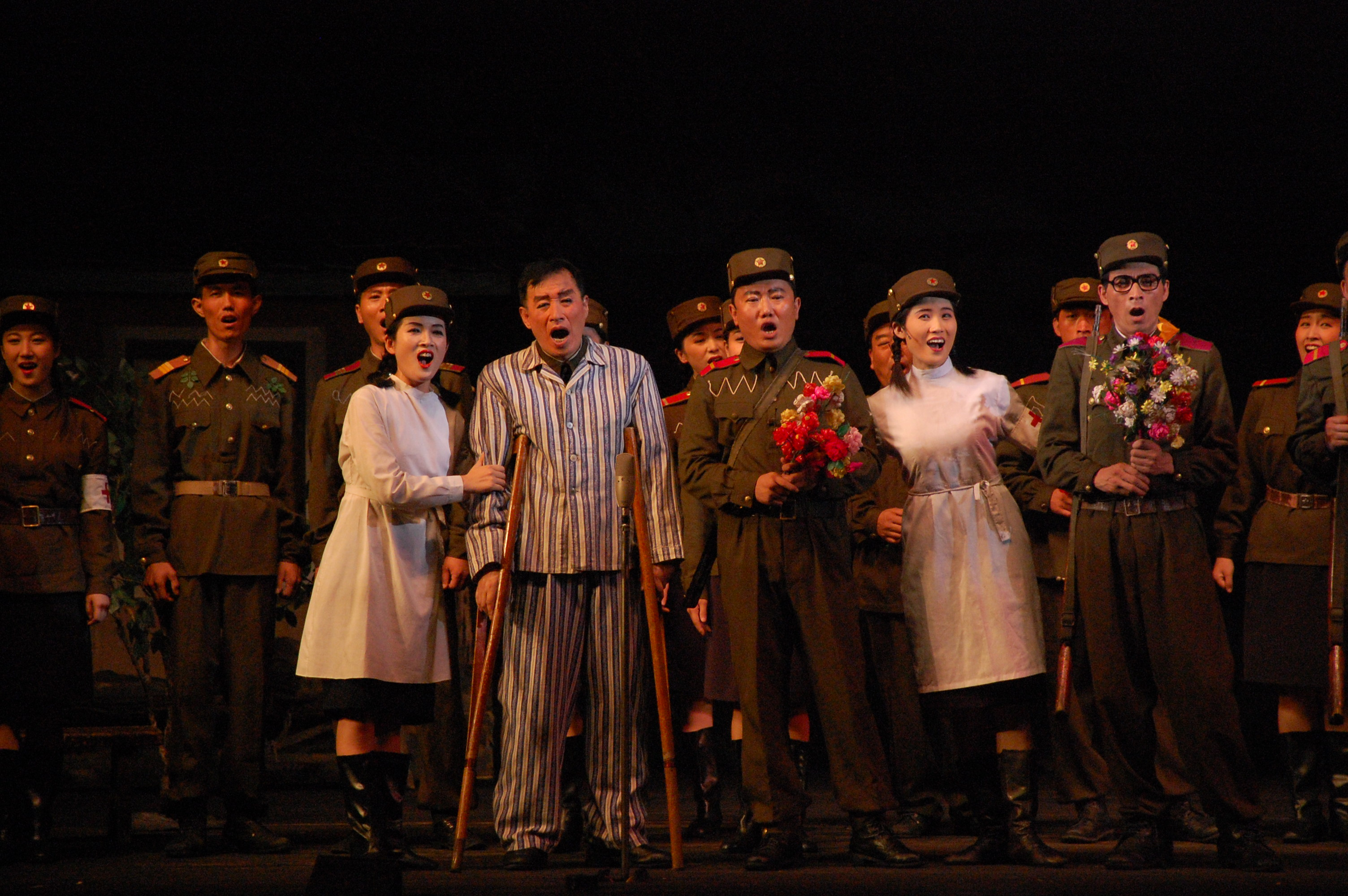 Scene at the Pyongyang Opera.